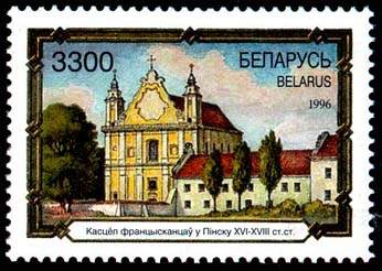 Stamp of Belarus